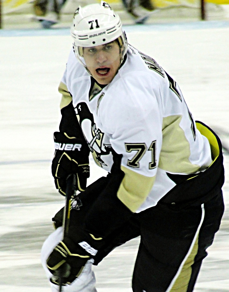 Pittsburgh Penguins center Evgeni Malkin skates against the Columbus Blue Jackets in a February 26, 2012 game at Consol Energy Center in Pittsburgh, PA.